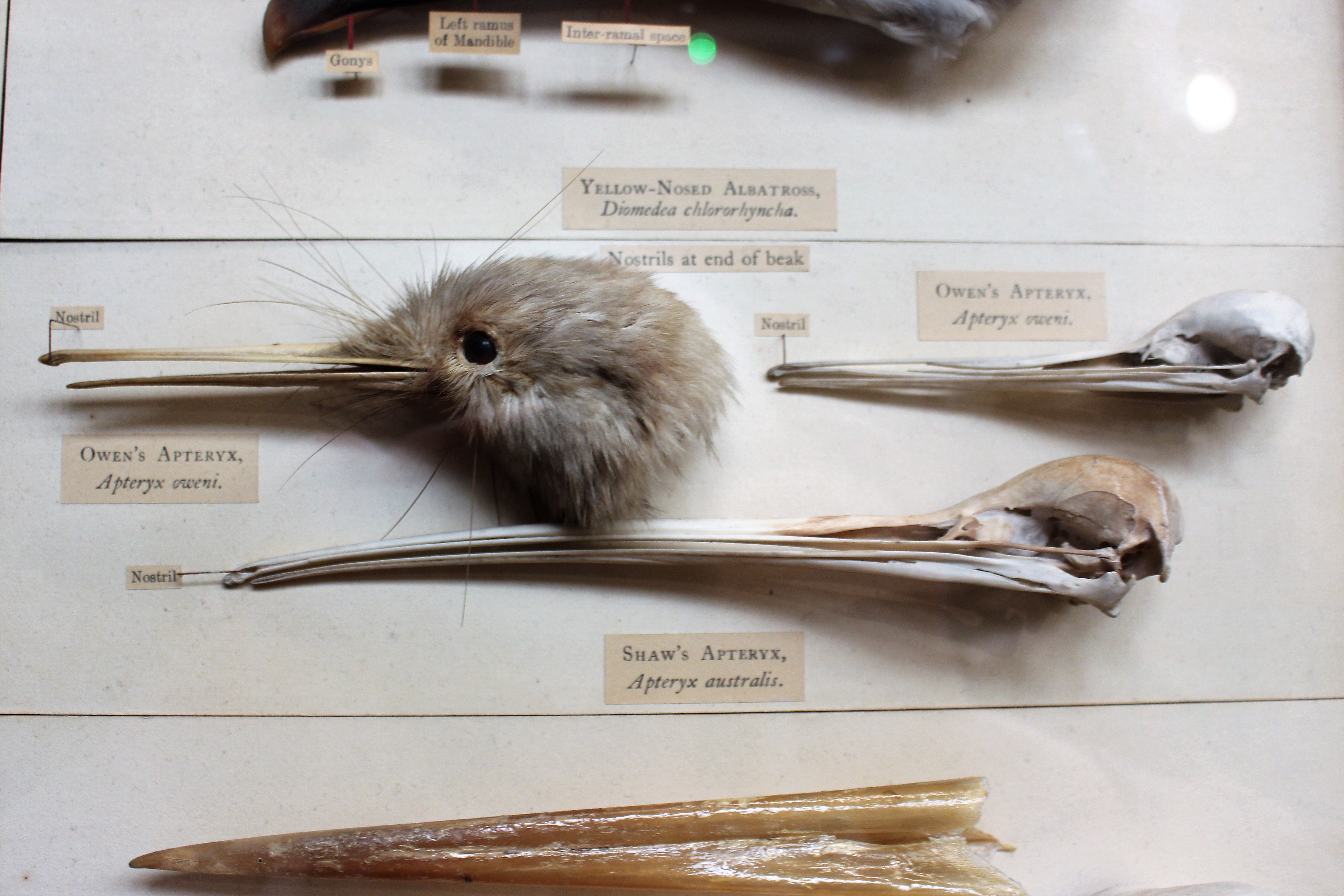 Taxidermied little spotted kiwi (Apteryx owenii) head and beak, also southern brown kiwi (Apteryx australis) and white stork (Ciconia ciconia) beaks, at the Natural History Museum in London, England.